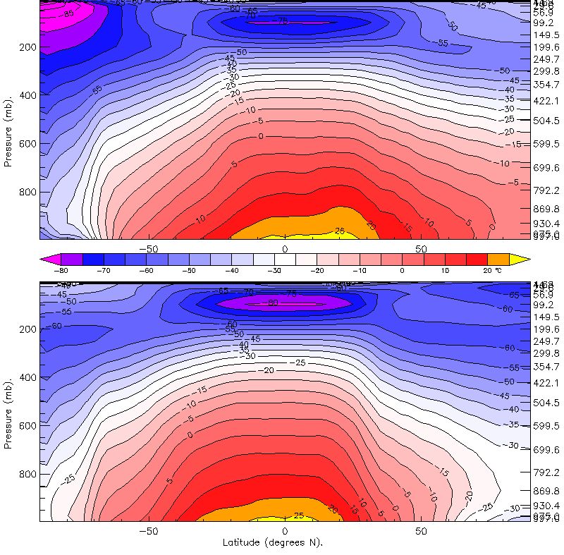 HadCM3 zonal mean temperatures in June-July-August (top) and December-January-February (bottom) from a control run. Plot created using IDL by William M. Connolley. Horizontal axis is latitude, pole to pole; southern hemisphere negative. Vertical axis: LHS: pressure (hPa); RHS: pressure (approximate model level equivalents). Technical note: in converting from potential temperature to temperature no correction is made for orography, hence all surface pressures appear to be 1000 hPa. This is most noticeable over Antarctica, which appears to be missing.